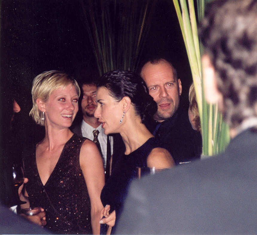 Photo taken at the 1997 Emmy Awards.